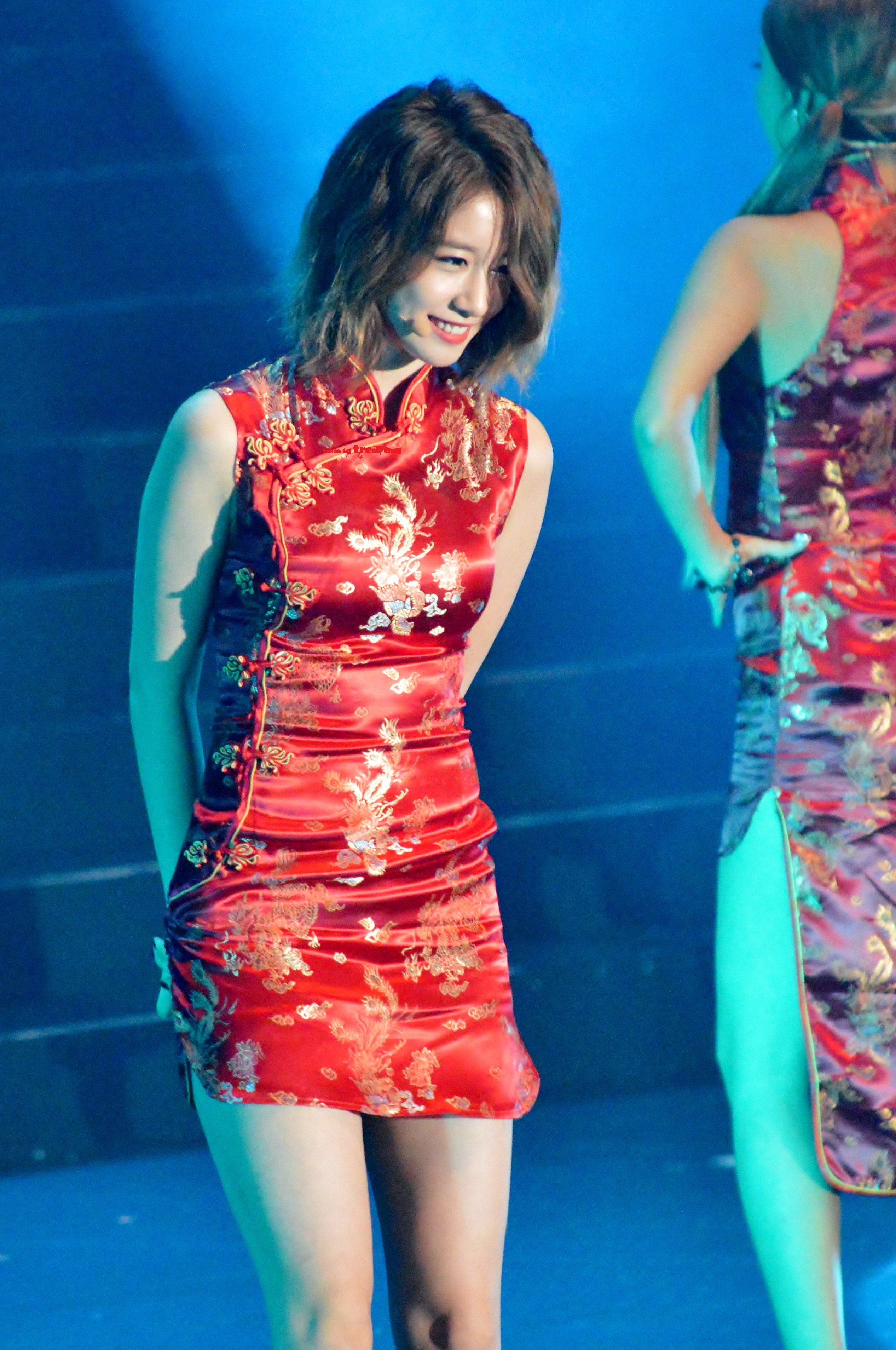 Park Ji-yeon performing with T-ara on 10 August 2013 at AsiaWorld–Arena, Hong Kong.